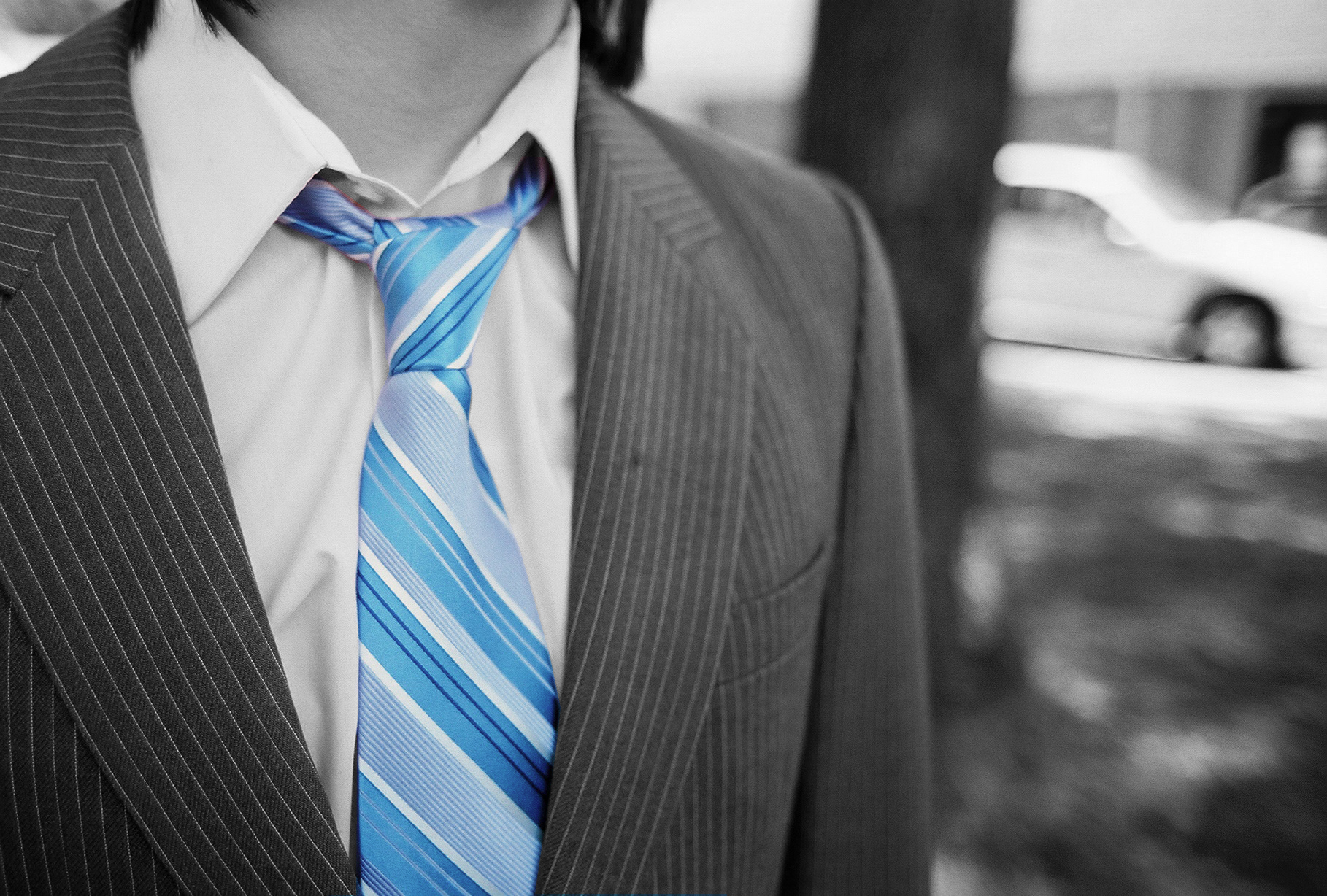 A torso and striped necktie. The necktie is in colour, but the rest of the image is in black and white.